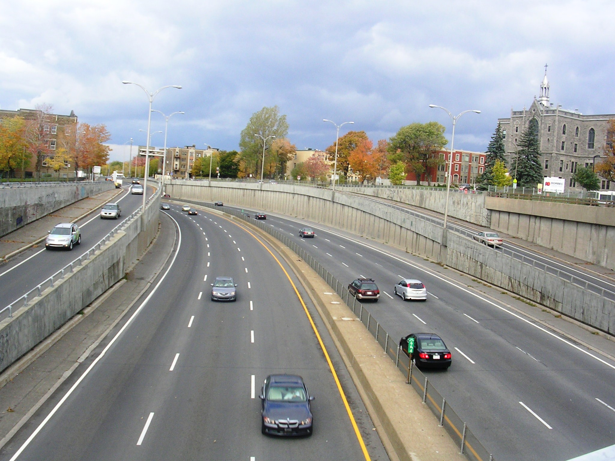 Decarie Highway